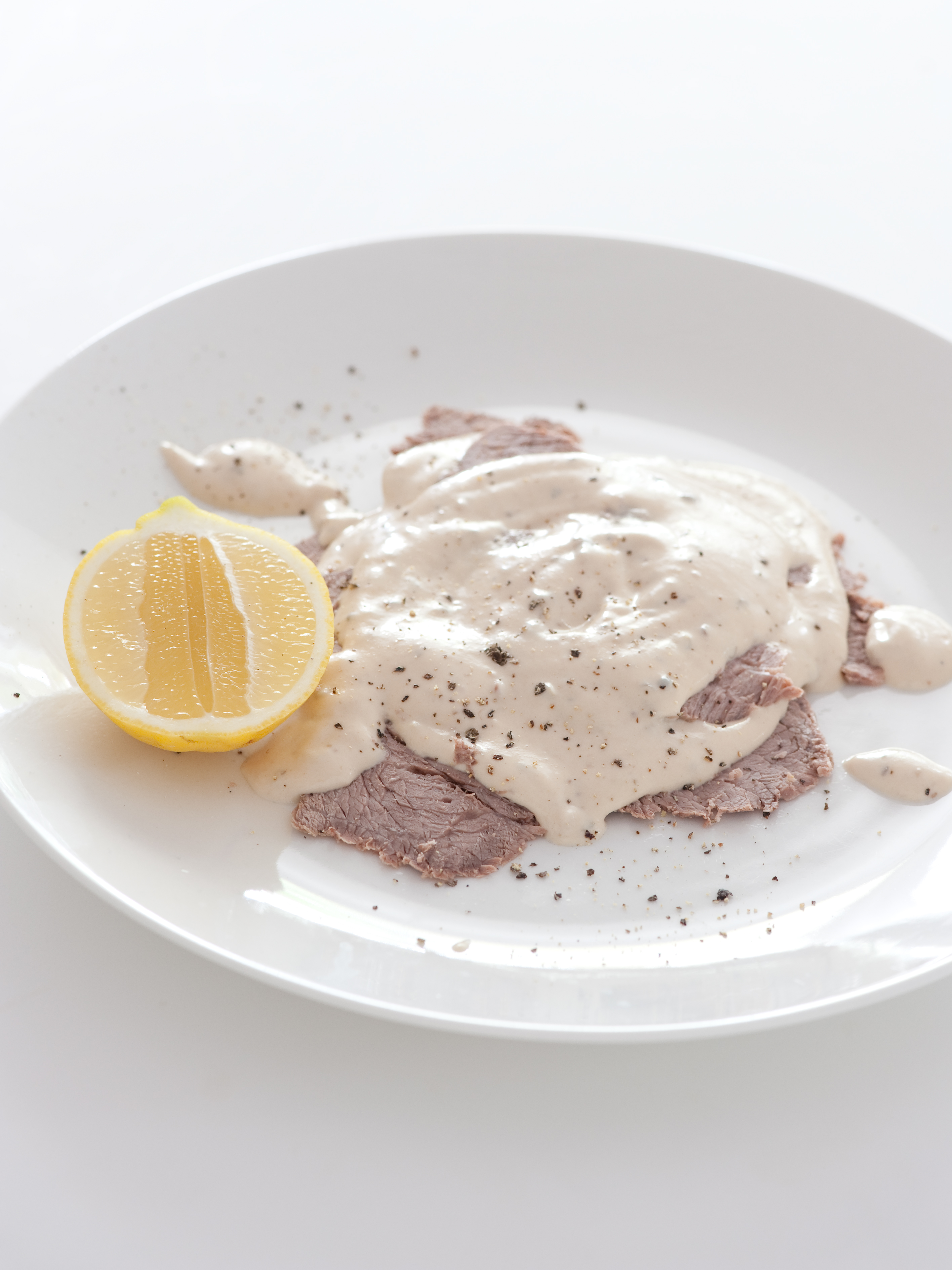 recipe at stonesoup